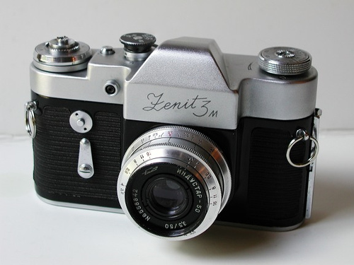 A Zenit 3M camera produced by the former Soviet Union. Also pictured is an Industar 50/f3.5 (M39X1).